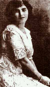 May Ziade was born in the 1880s and this picture of her is well before she is 40 years old. See the original at : [1].